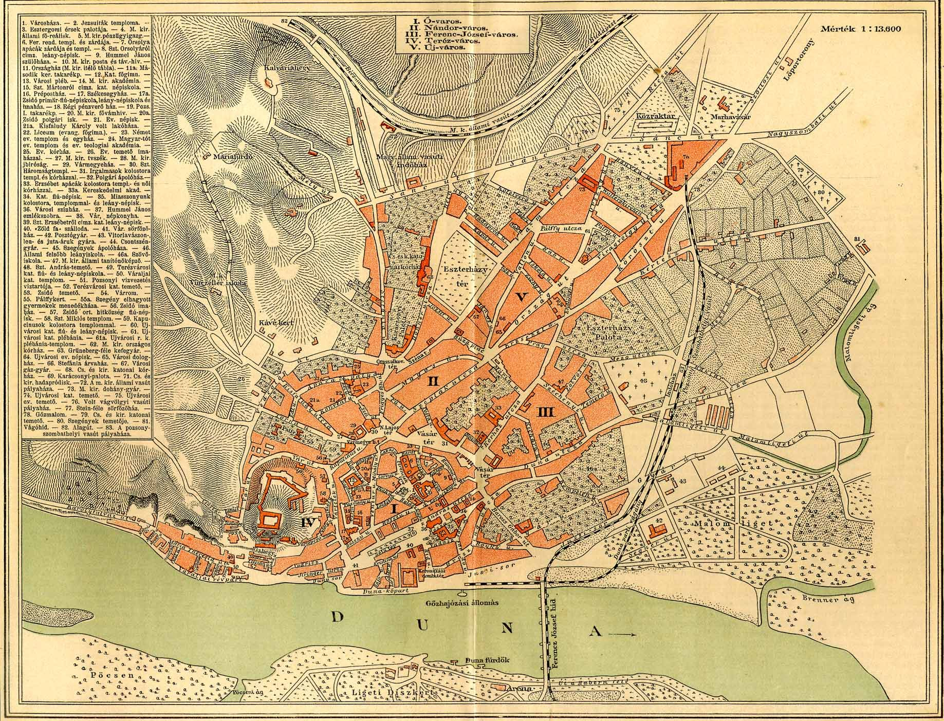 Map of Bratislava/Pozsony around 1895